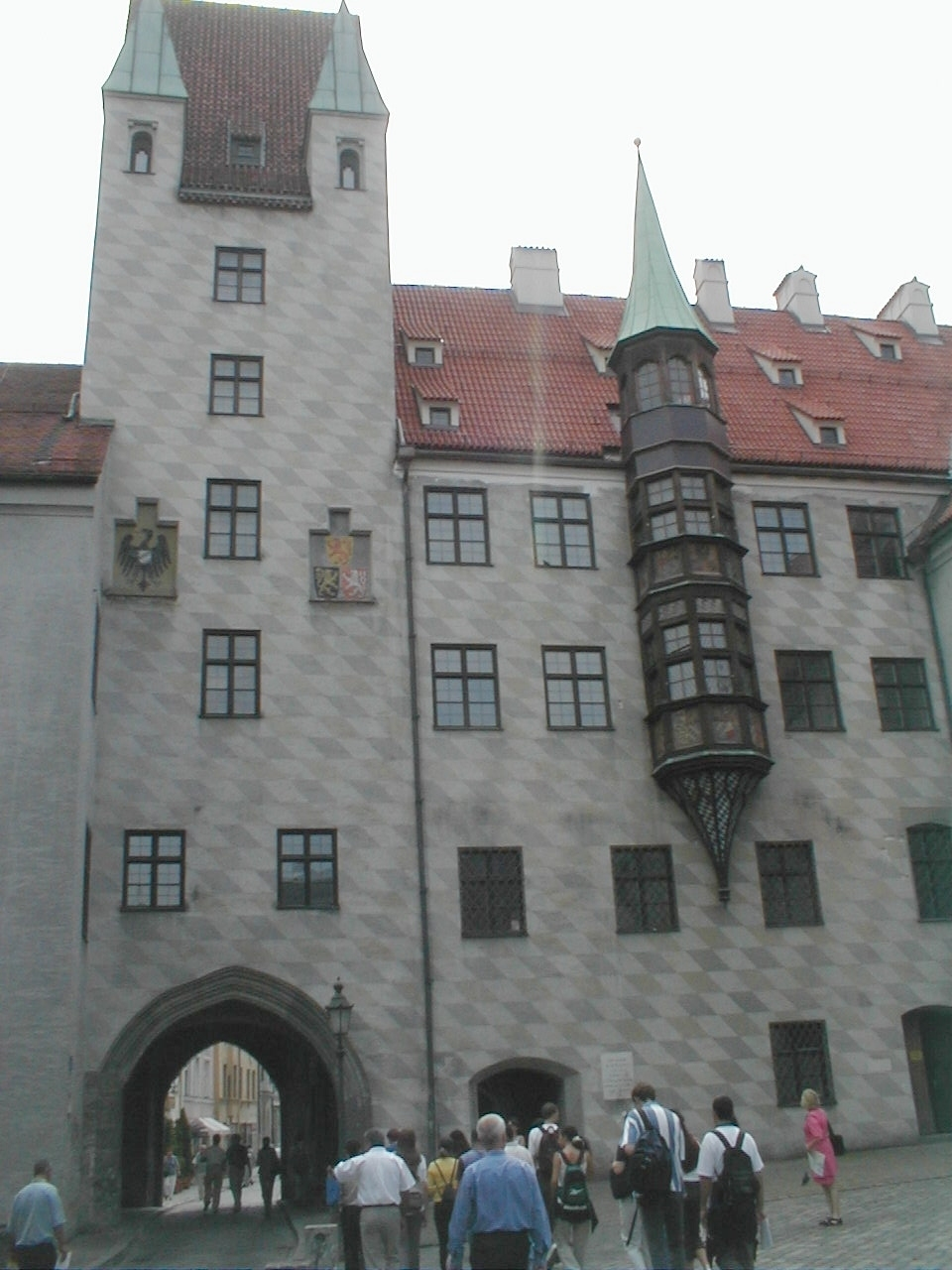 Alte Hof (Old Court) in Munich, Bavaria